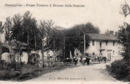 Campiglione